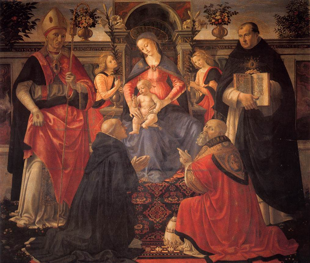 GHIRLANDAIO, Domenico Madonna and Child Enthroned between Angels and Saints Tempera on wood,168 x 197 cm Galleria degli Uffizi, Florence